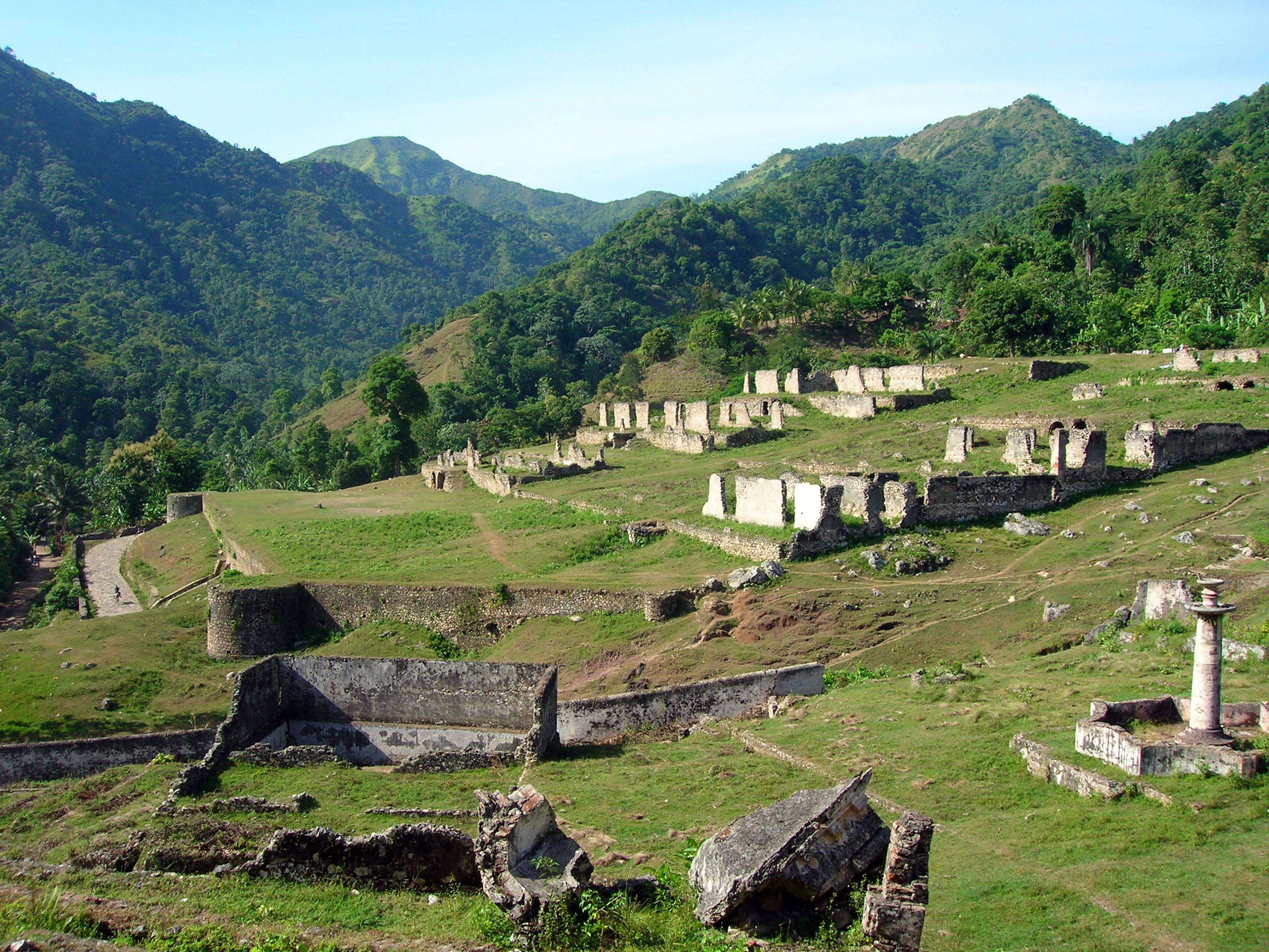 The gardens of the Sans-Souci palace, in Milot, Haiti.